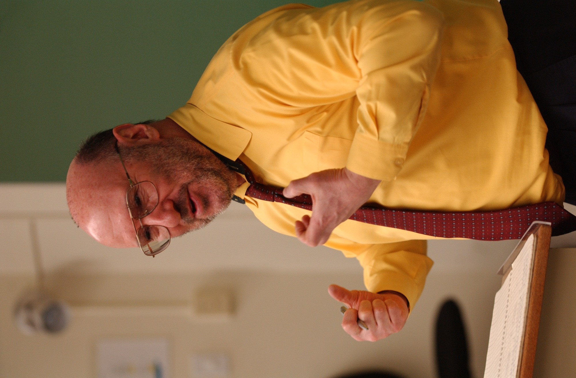 This image is of economist Walter Block teaching economics in a Loyola University New Orleans classroom.